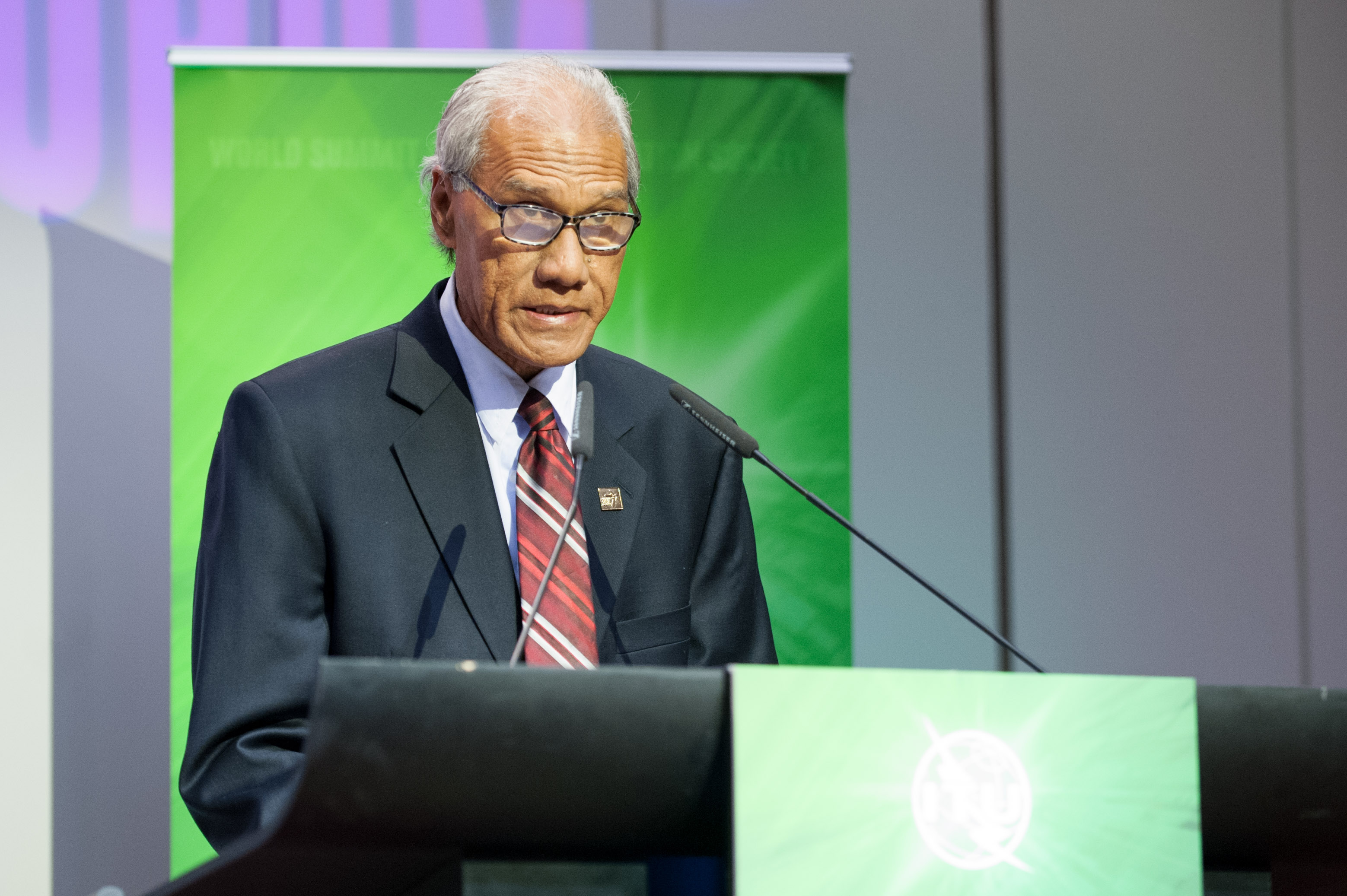 4th May 2016 H.E. ʻAkilisi Pōhiva, Prime Minister, Tonga High-Level Policy Statements: Concluding Session ©ITU/D.Woldu